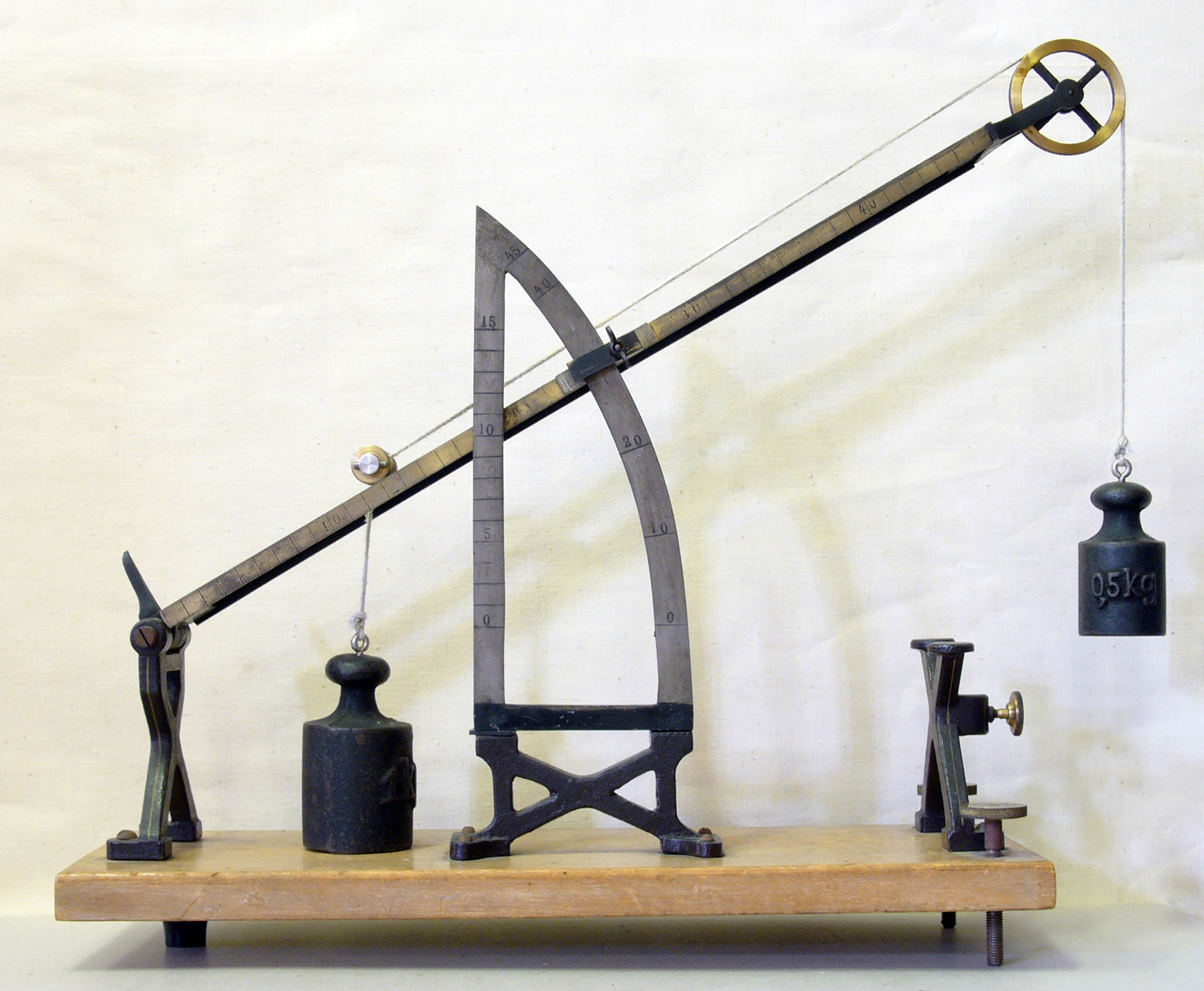 Demonstration inclined plane apparatus, used in science education probably around the early 20th century, on display in the Schulhistorische Sammlung (School Historical Museum), Bremerhaven, Germany. The slanting metal track serves as an inclined plane. The small brass wheel on the track (left) with the large weight hanging from it serves as a load, which is pulled up the plane by the cord attached to the small weight (right) Since the larger weight can be pulled up the plane by the smaller weight the inclined plane demonstrates mechanical advantage. The angle of the track is adjustable, to change the mechanical advantage.